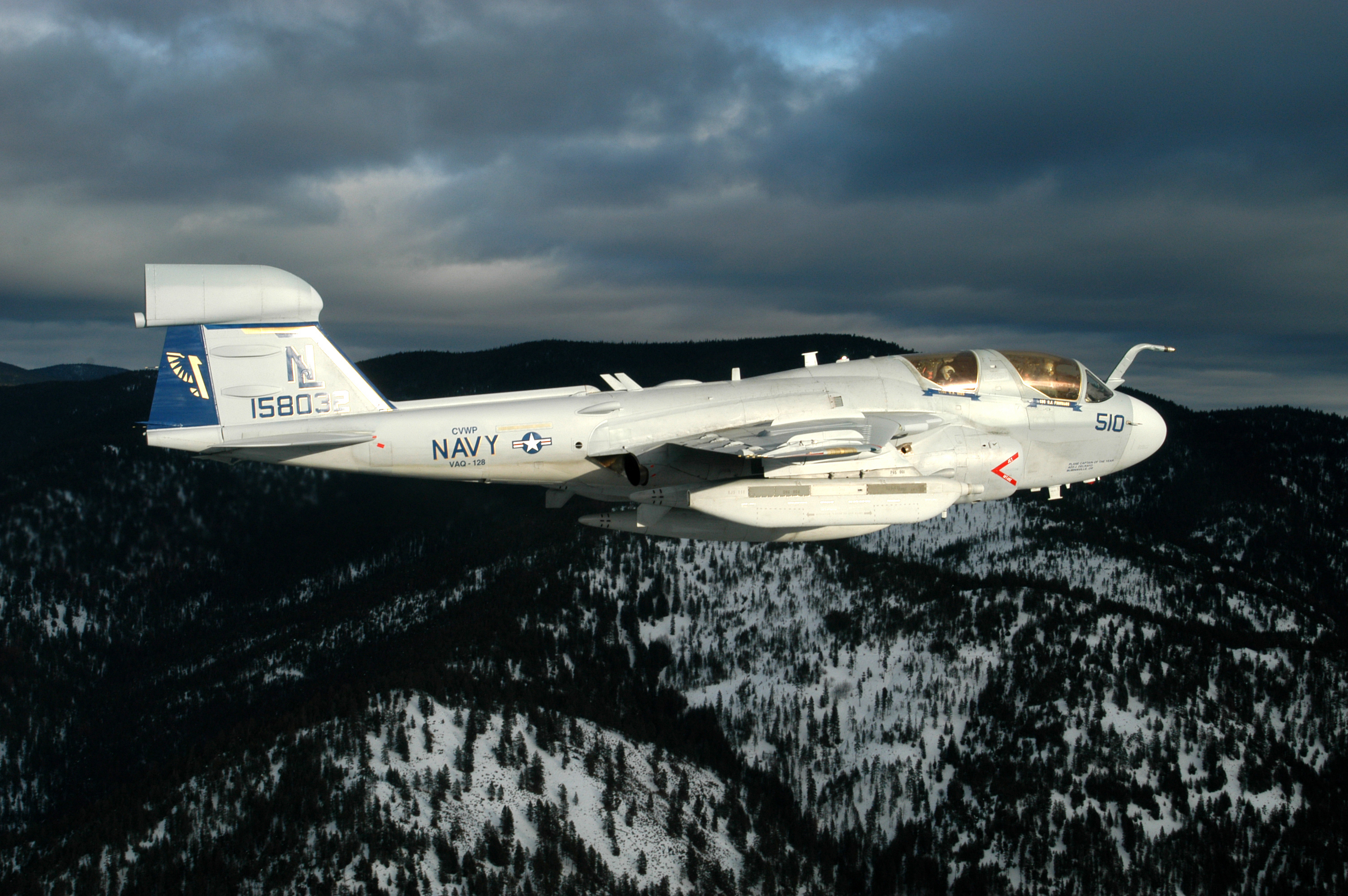 An EA-6B “Prowler” from Electronic Attack Squadron One Twenty Eight (VAQ-128) in flight near the Northern Cascade Mountains while the squadron conducts a routine training exercise.